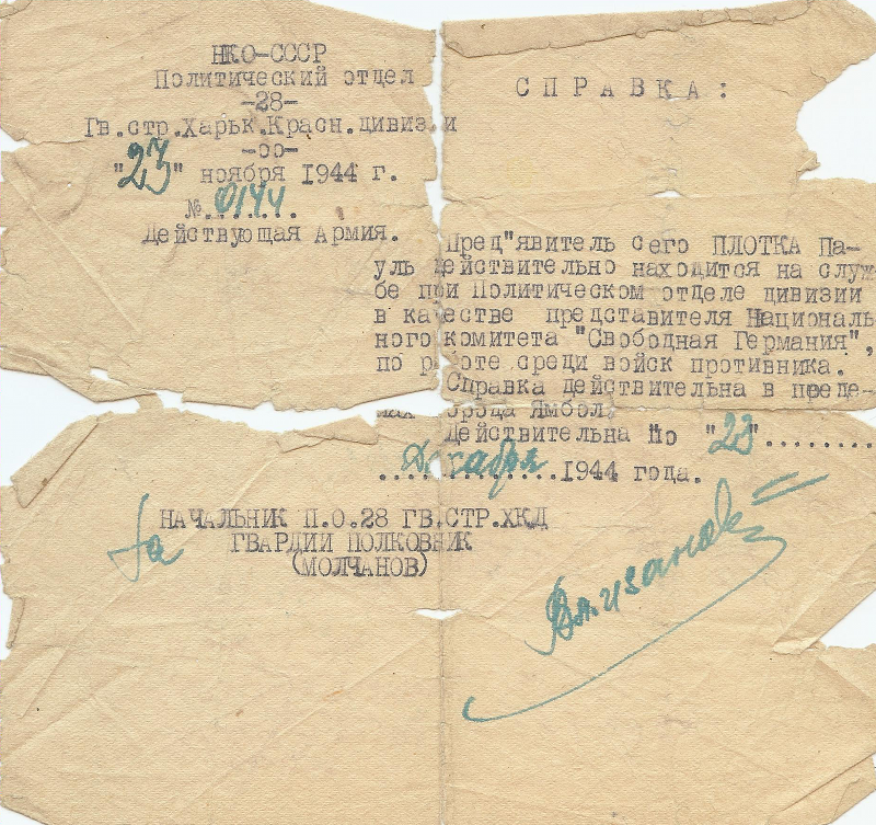 NKFD membership certificate of the german Paul Plotka. Issued november 23. 1944 by colonel Moltchanov, 28. political section